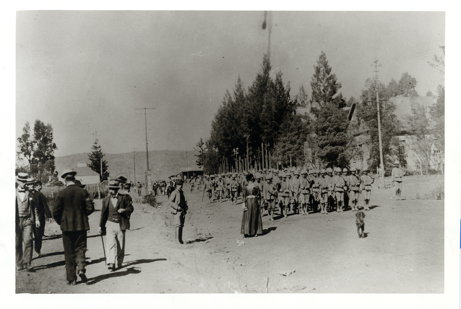 This photograph shows British troops marching on Market Street, later called Paul Kruger Street, in Pretoria, South Africa, in 1877. In 1877-78, the British Army engaged in a series of punitive expeditions against the Basuto, Zulu, and Galeka peoples that resulted in the annexation of the Transkei to the Cape Colony. The photograph is from the Van der Waal Collection at the Department of Library Services at the University of Pretoria, South Africa. The Van der Waal Collection forms part of an archive of South African architecture assembled by architectural historian Dr. Gerhard-Mark van der Waal. Market Street; Paul Kruger Street; Soldiers; Streets